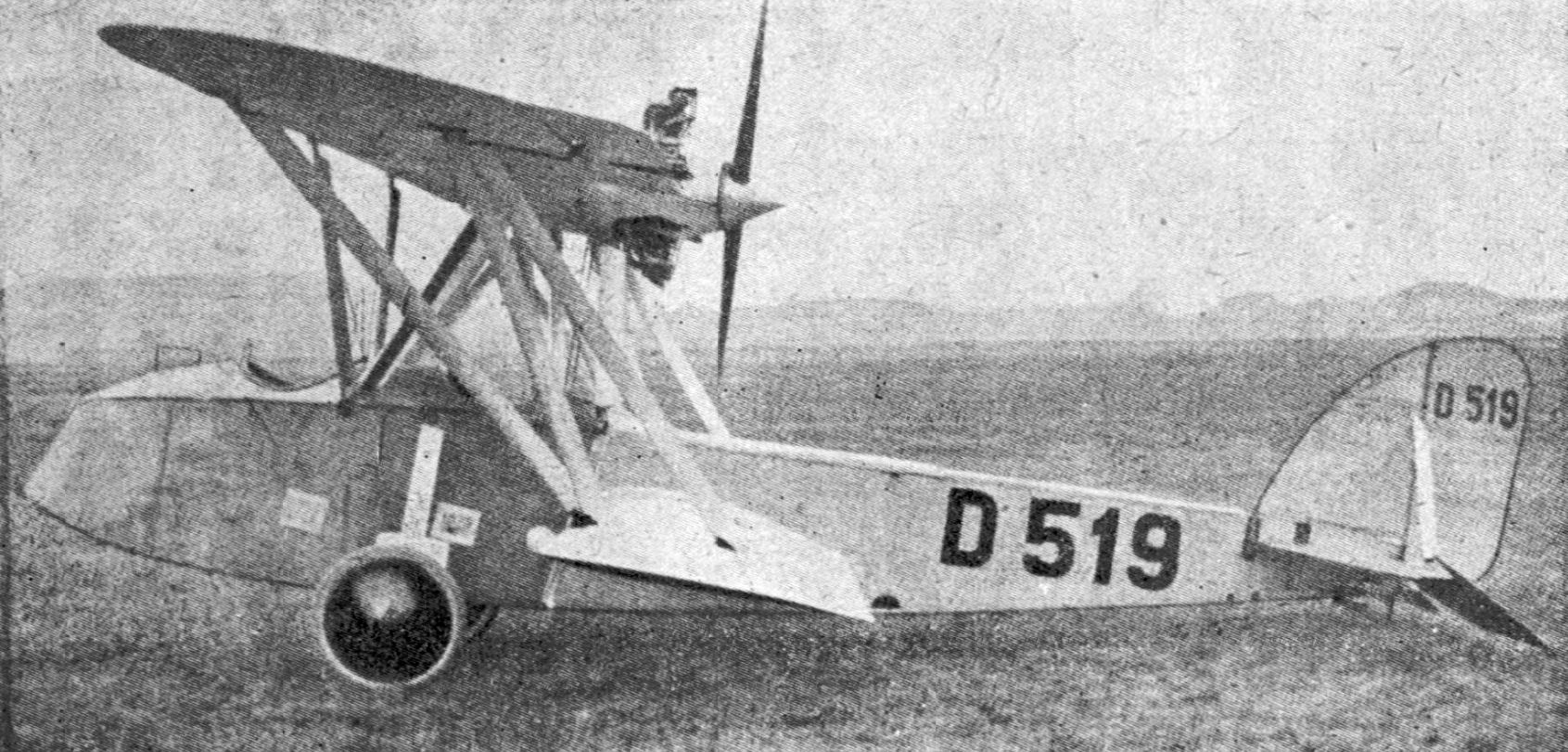 Albatros L 71 photo from L'Air February 15,1926